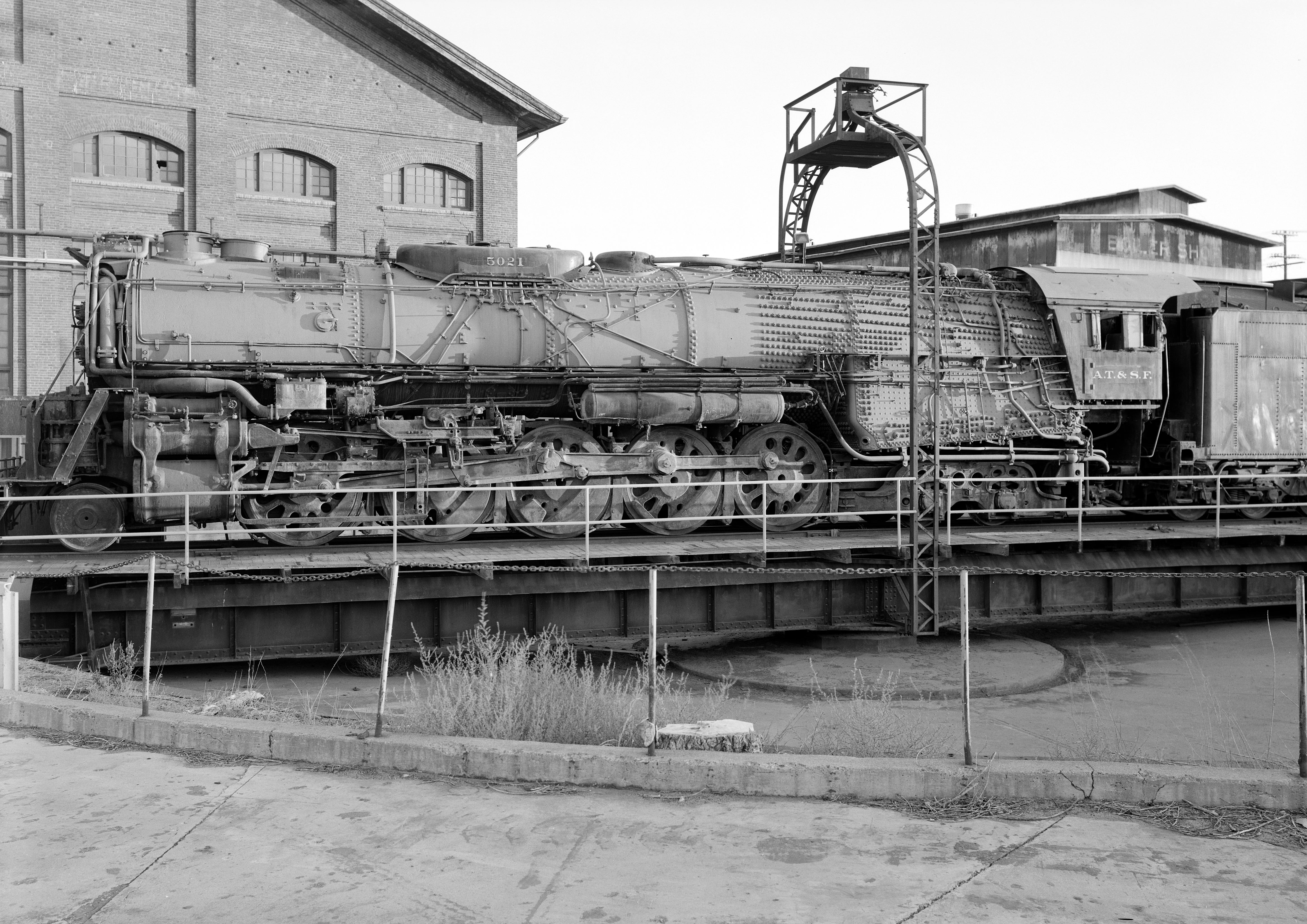 ATSF 2-10-4 steam locomotive #5021 on the turntable at the Southern Pacific's Sacramento Shops. The locomotive has had its boiler cladding and easily stealable/collectible parts removed.